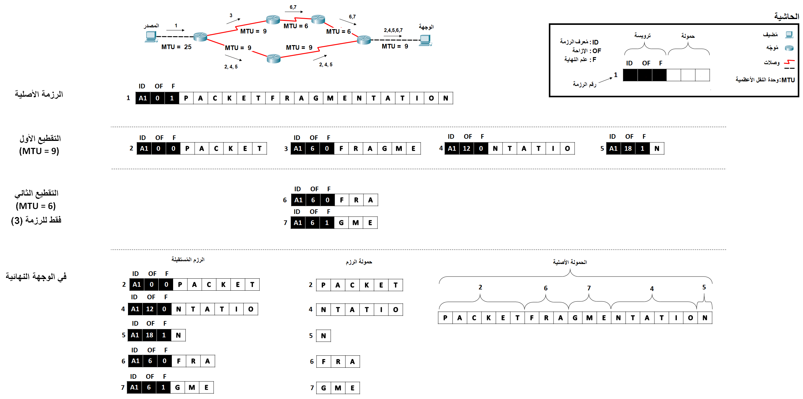 An example of a multi-fragmentation process for a data packet in a computer network, the packet is routed from the source to the destination and is being fragmented twice, then, the fragments take different paths to be reassembled at the destination.